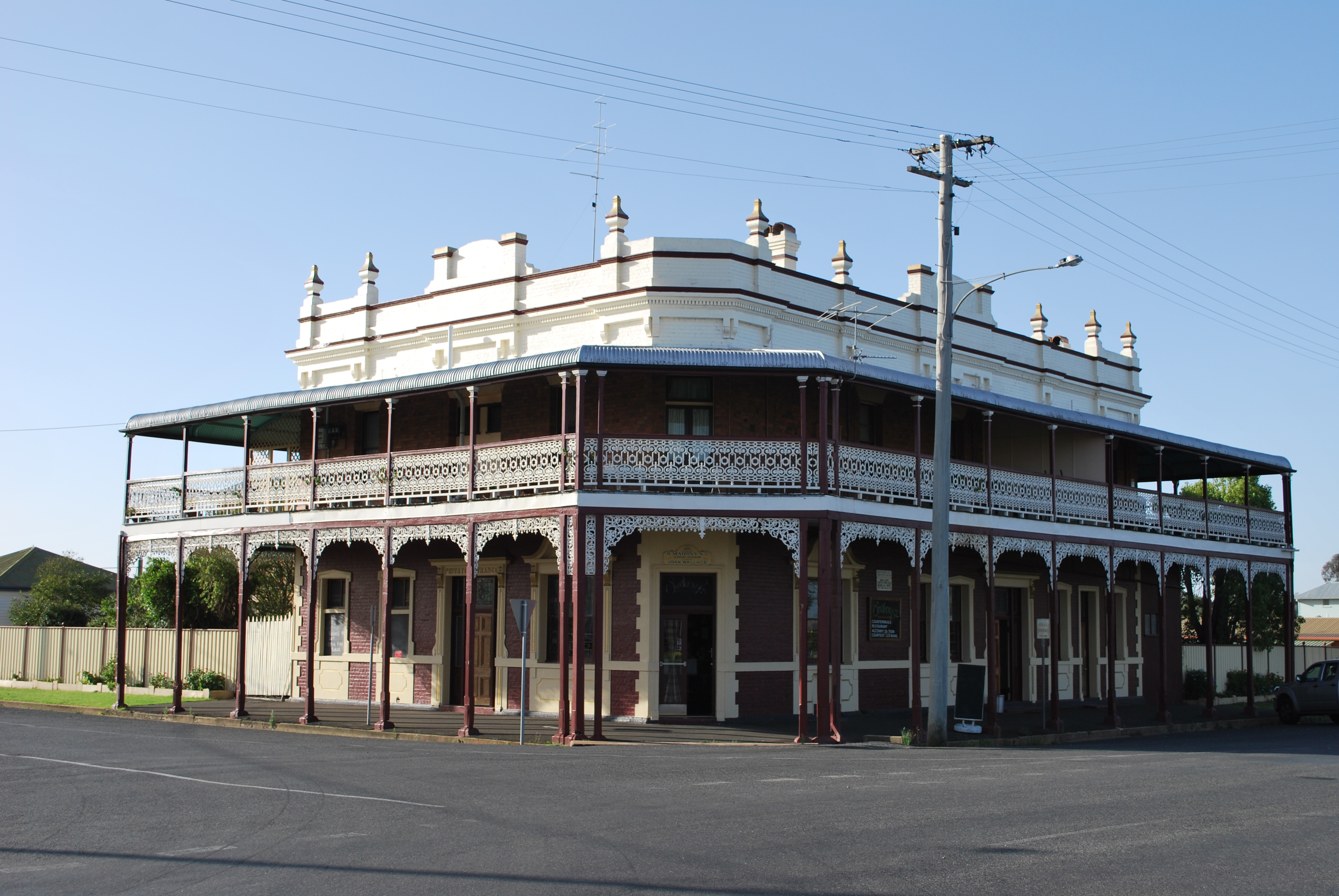 O'Mahony's Hotel at Warwick, Queensland, formerly known as the National Hotel and Allman's Hotel